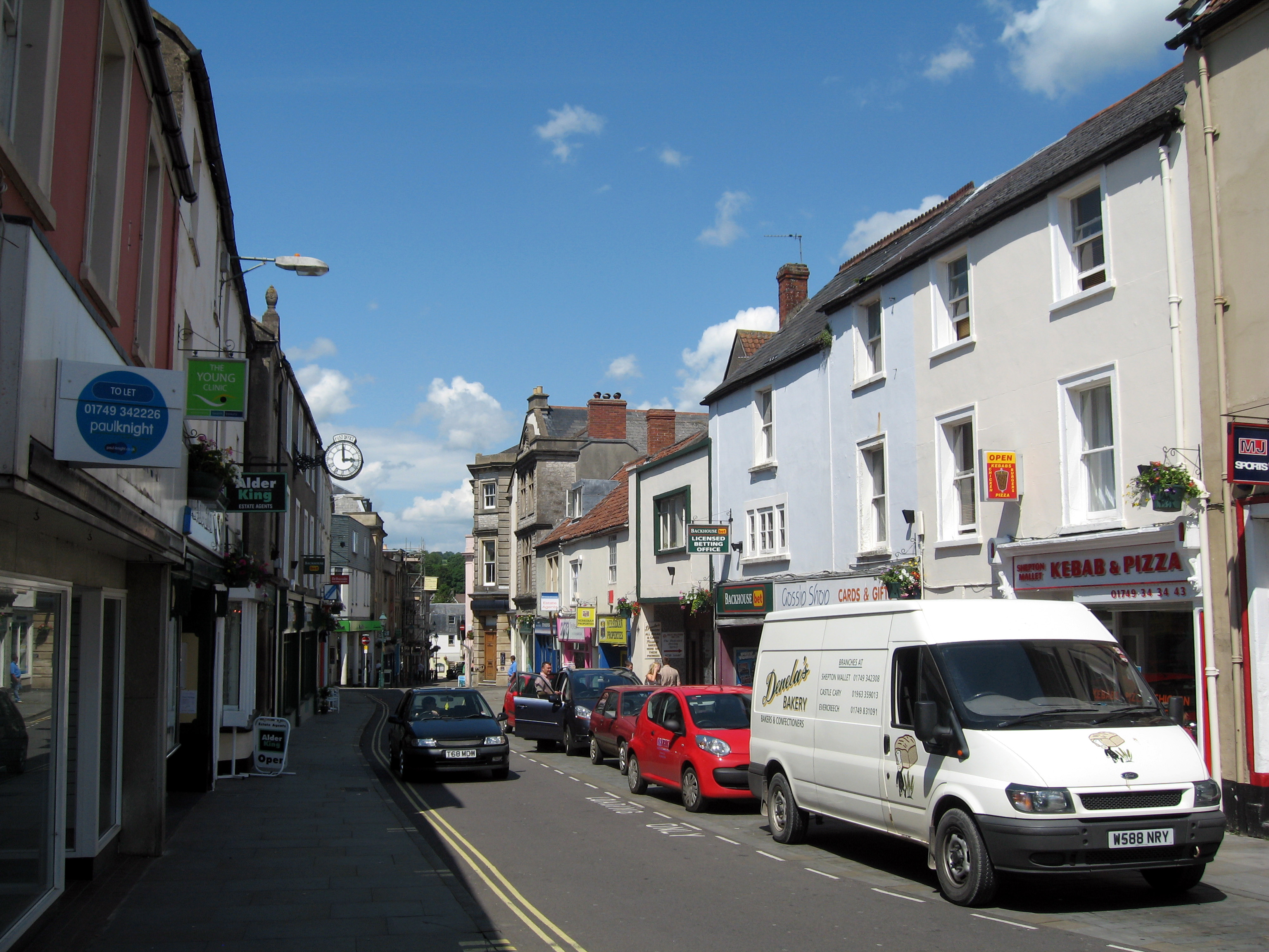 Shepton Mallet High Street, Somerset, UK. Shepton Mallet is a small market town on the edge of the Mendip Hills. In the past its chief industry was the wool trade (hence "Sheeptown"); today cidermaking, distribution and information technology make notable economic contributions. The High Street runs along the town's north-south axis and contains some of the town's retail sector. Picture taken by wurzeller on 14 June 2008